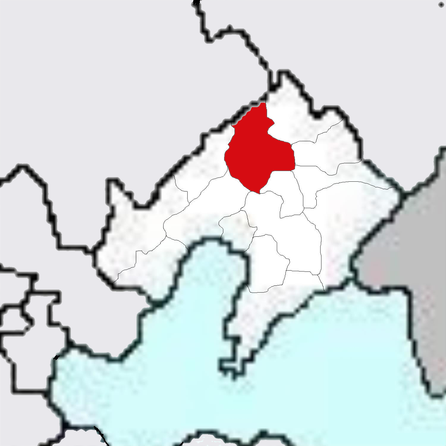 Maps of Liaoning Province, China